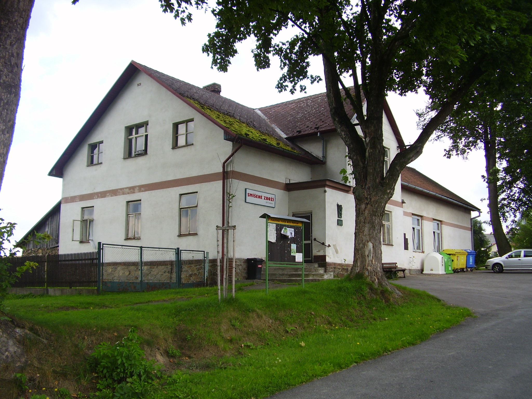 Disused pub "U Němců", where was killed people in nacizm revolt in year 1944 2. world war: Vojtěch Luža, Josef Koreš in Přibyslav part Hřiště